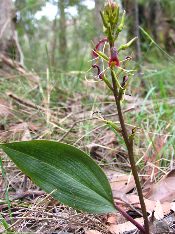 Whole plant of Cryptostylis leptochila showing the egg-shaped leaf